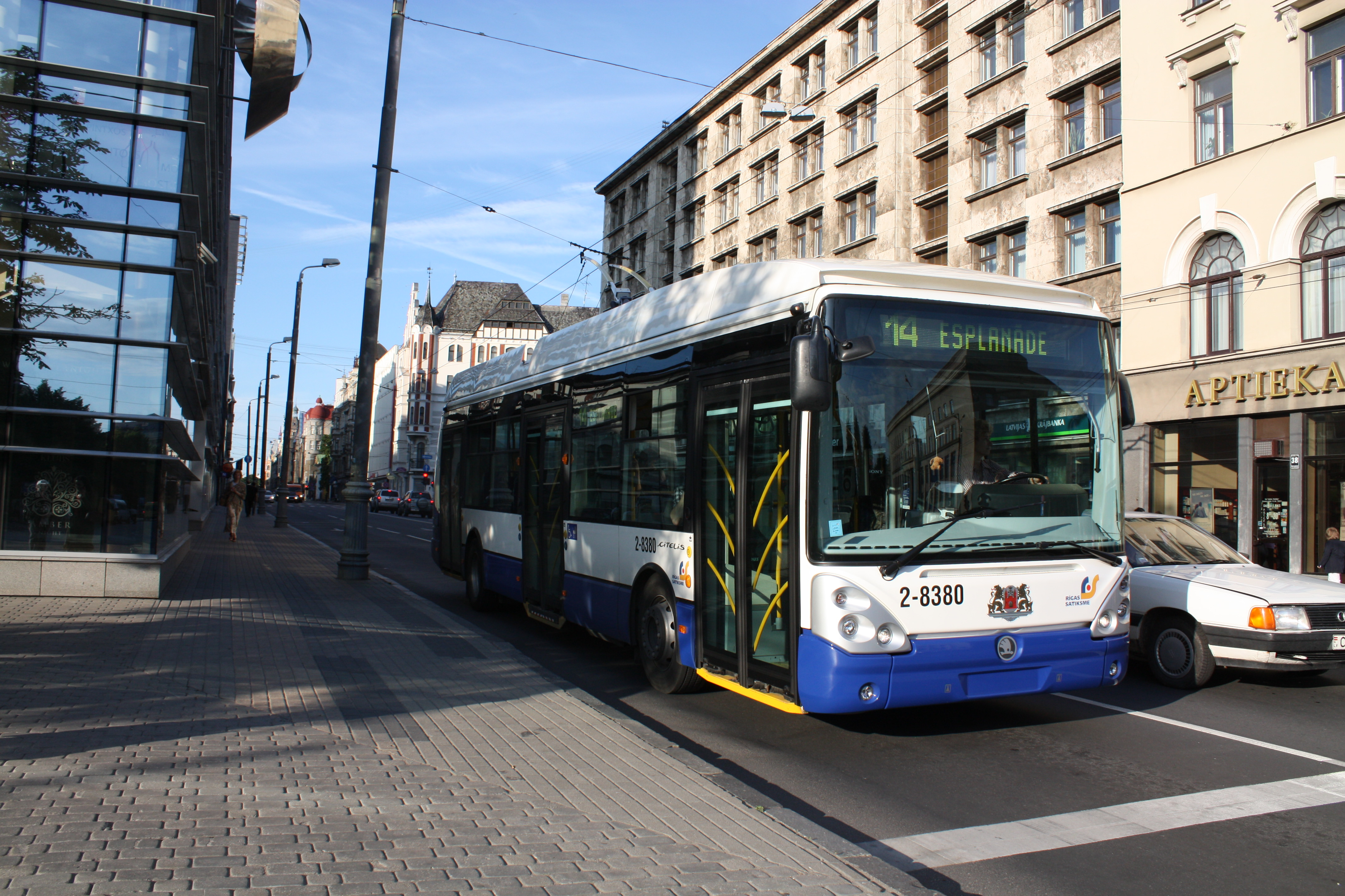 Škoda trolleybus Nr. 14 in Riga, Latvia